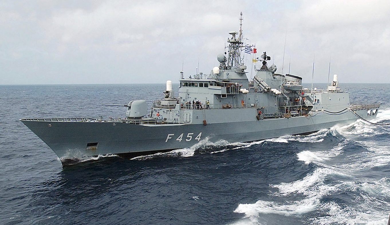 A view from onboard the US Navy (USN) Sacramento Class Fast Combat Support Ship, USS SEATTLE (AOE 3), showing The Greece Navy Hydra Class (Meko 200HN) Frigate, Hellenic Ship (HS) PSARA (F 454), underway conducting Replenishment At Sea (RAS) operations during Operation ENDURING FREEDOM. An H2.50 caliber machine gun sits at rest unmanned in the foreground